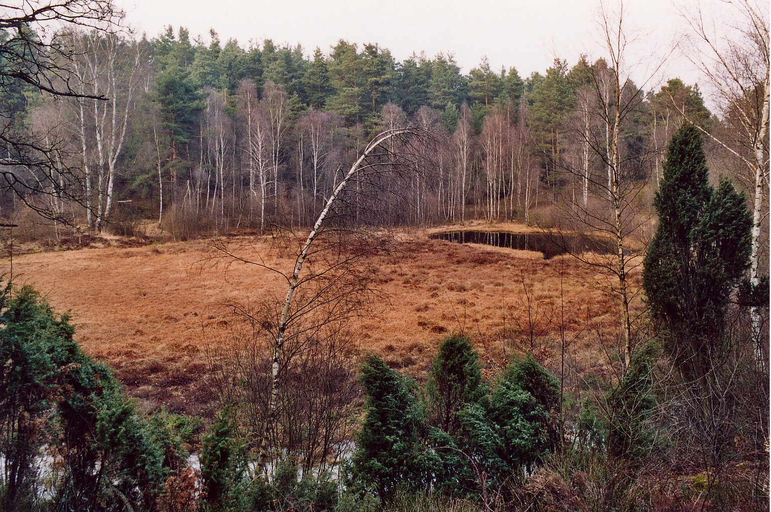 The "Bullenkuhle", a tiny moor lake within a terrain depression (sinkhole) in the landscape "Luneburg Heath" (Lüneburger Heide).